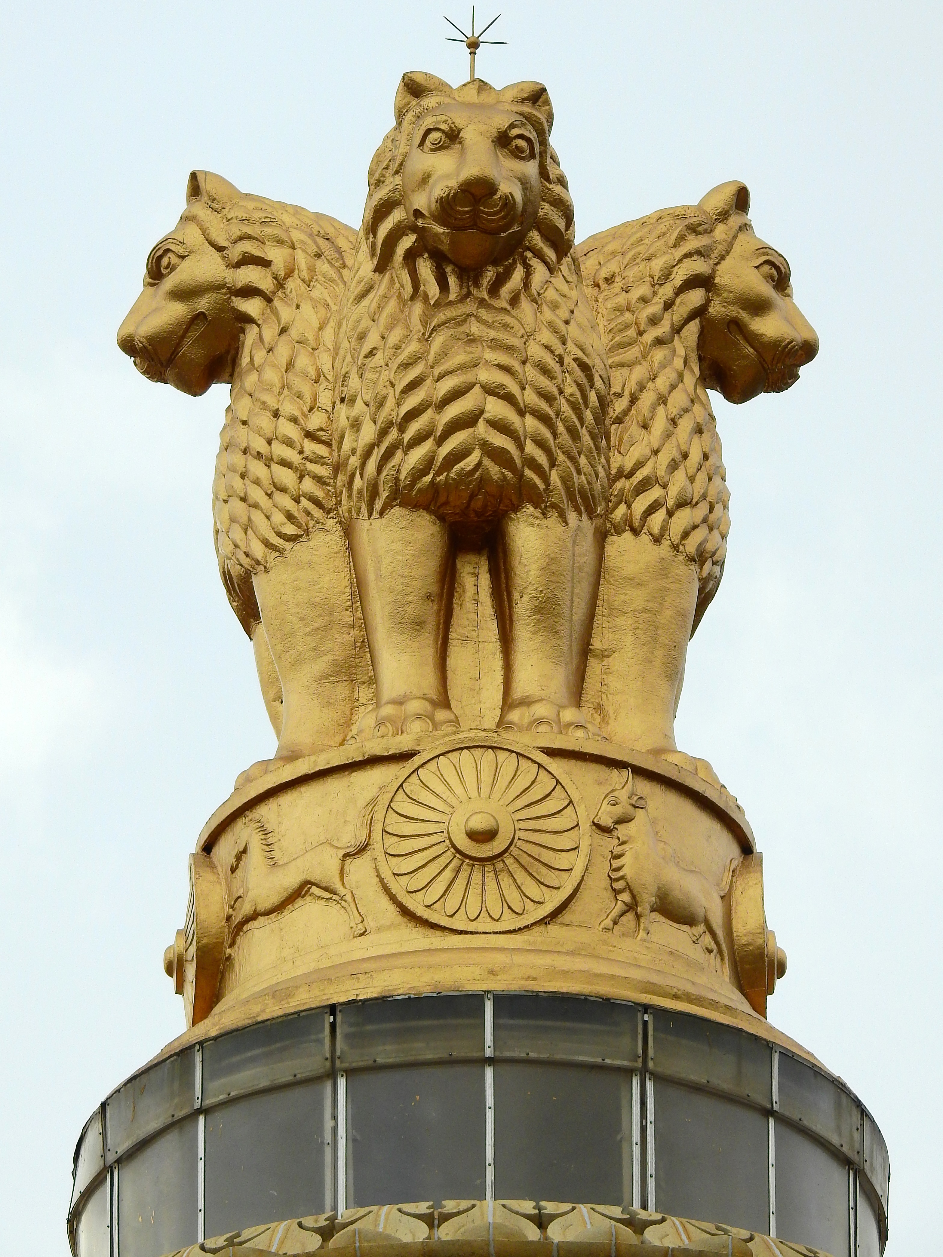 Vidhana Soudha, Bangalore, India.